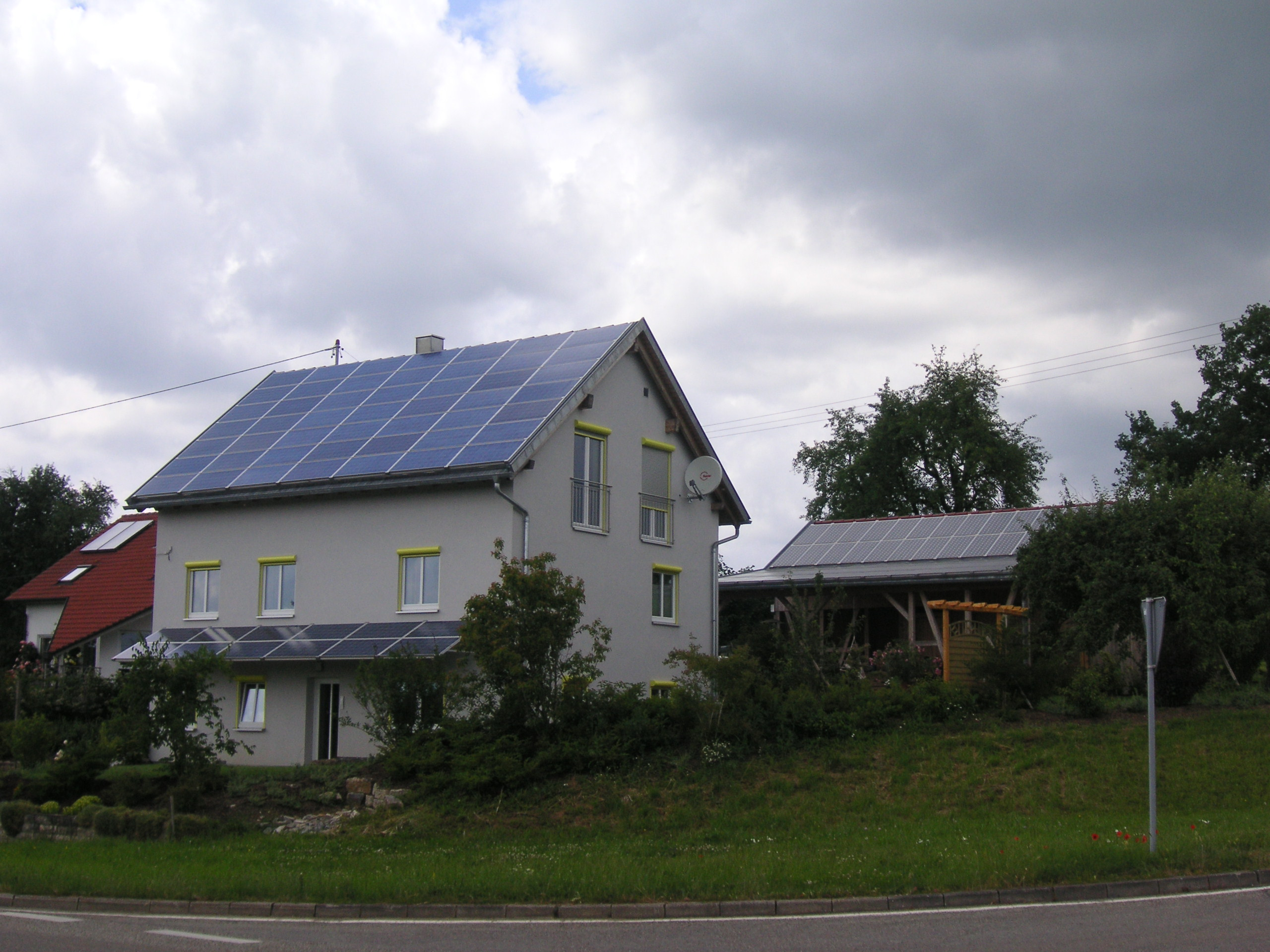 solar house Helwig